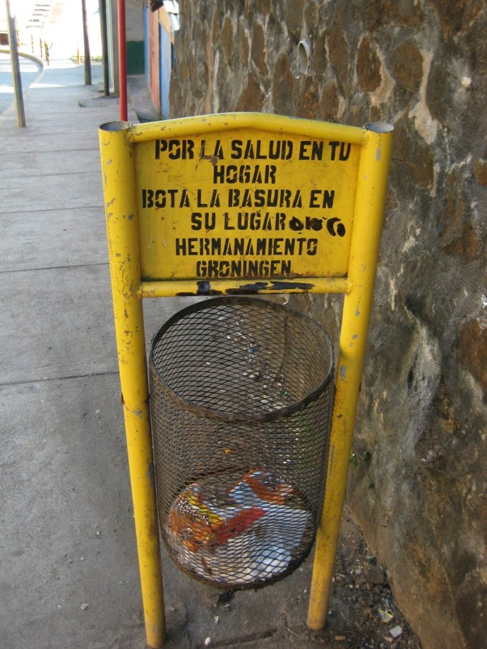 Dust bin in San Carlos from Groningen